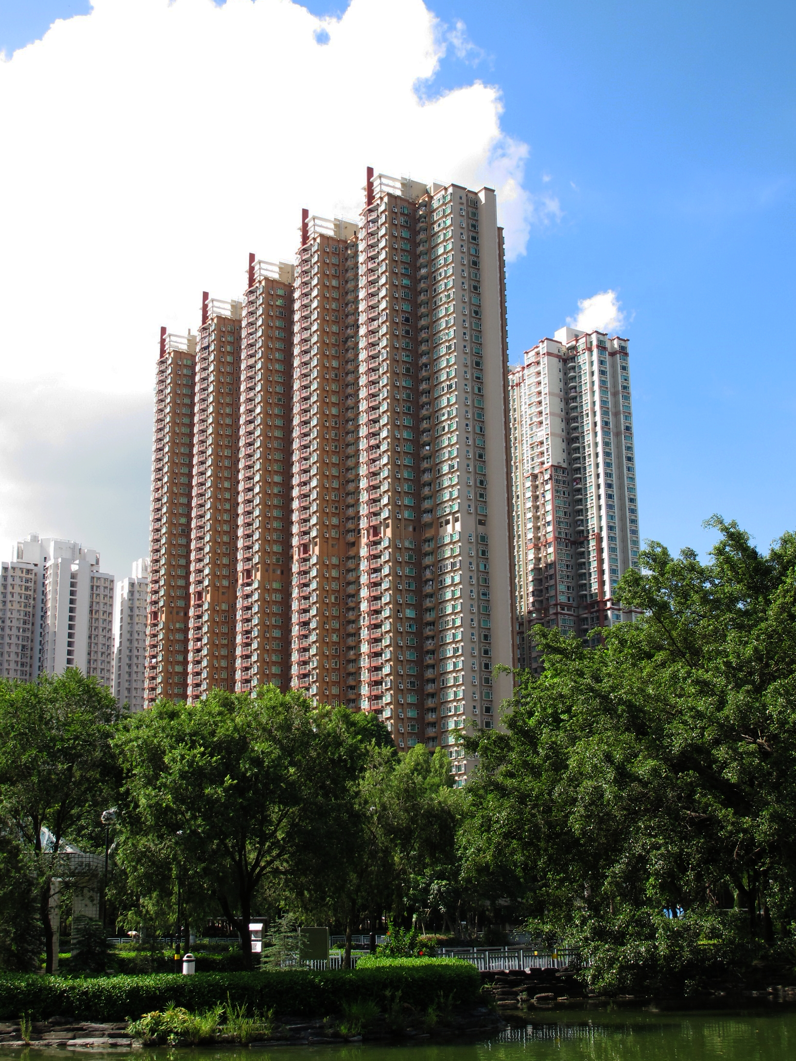 HK Central Park Towers 栢慧豪園